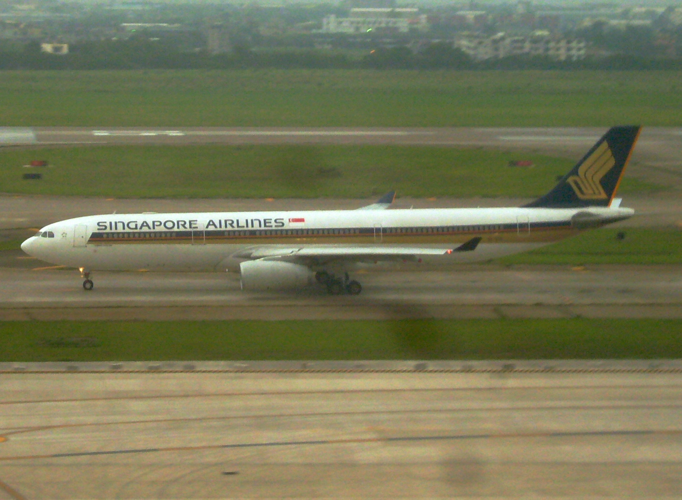 Singapore Airlines A330-300